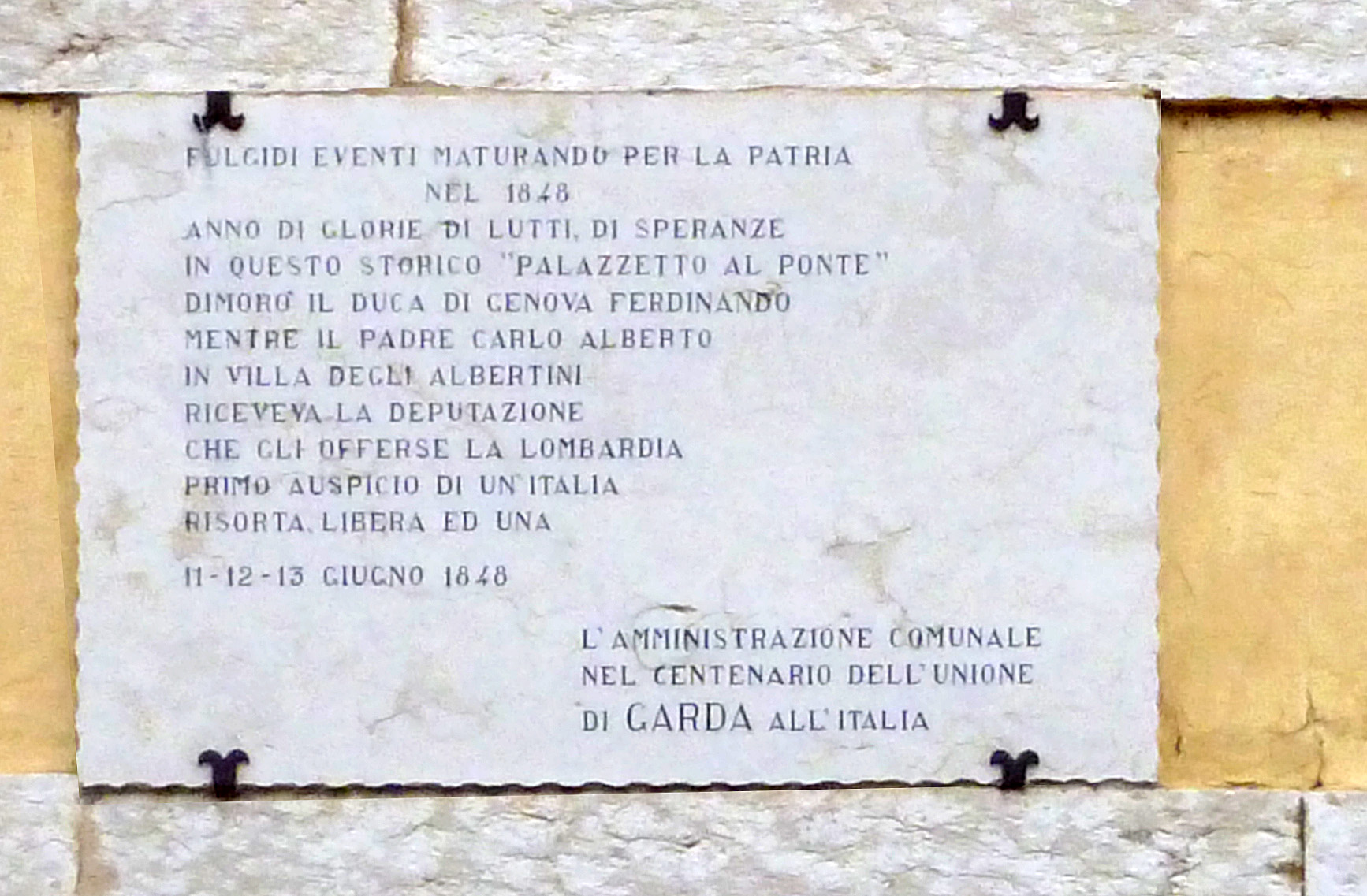 "Palazzetto al Ponte", house where Ferdiand, duke of Genoa, resided in 1848 at the start of the First War of Independence; Garda, Lake Garda, Italy